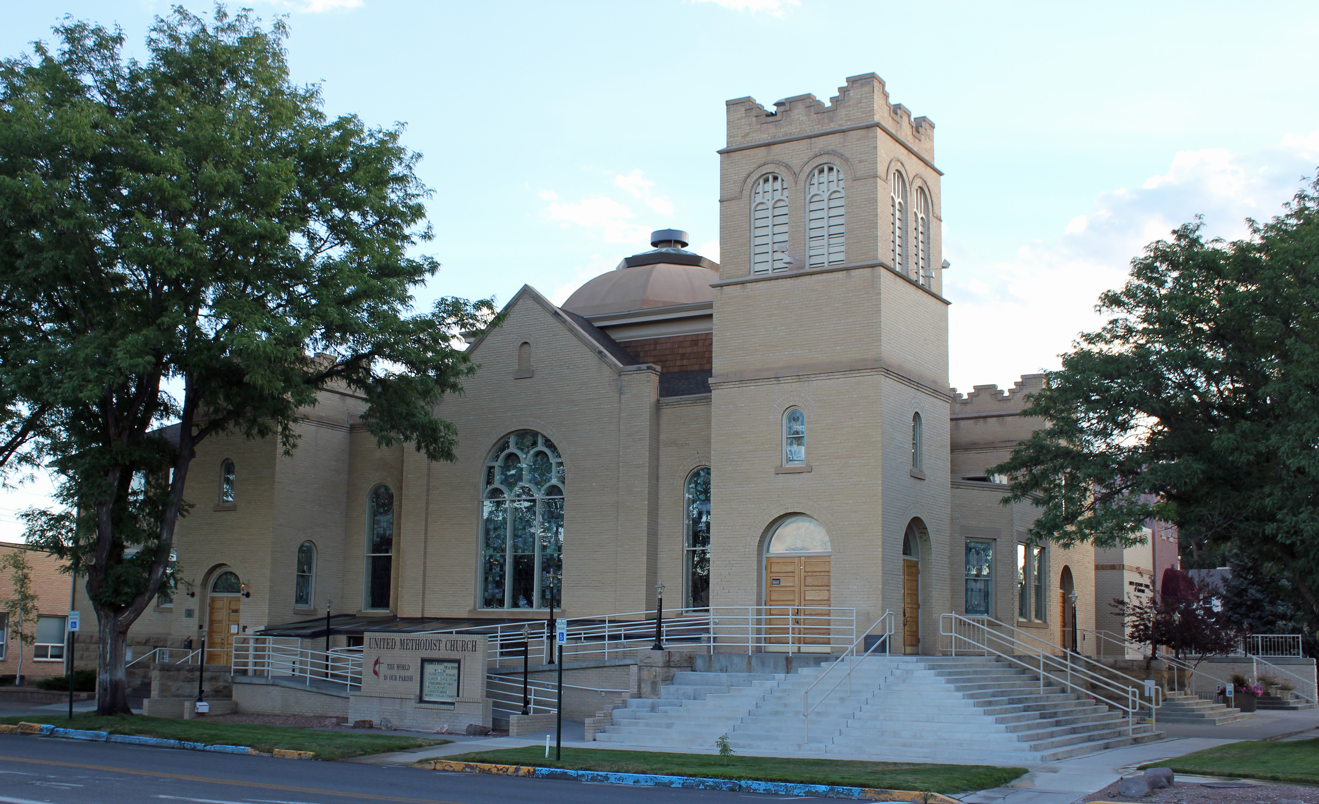 The Methodist Episcopal Church of Montrose, located at 19 South Park Avenue in Montrose, Colorado. The property is listed on the National Register of Historic Places.